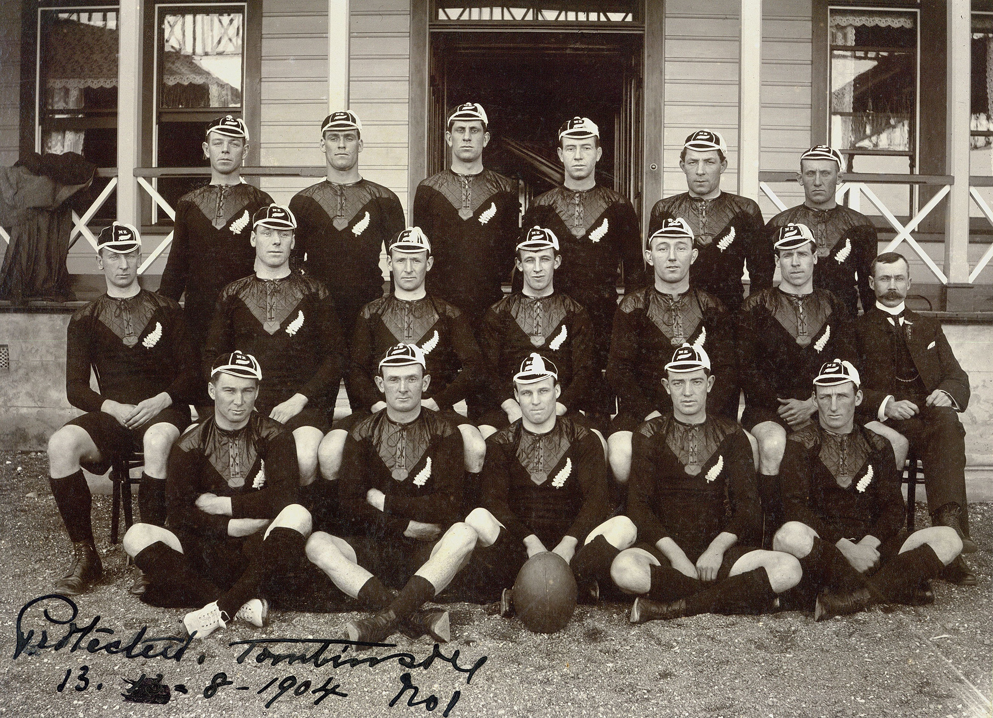 The New Zealand national rugby union team that played British Isles during their tour on Australia and NZ. The match was held in Wellington.